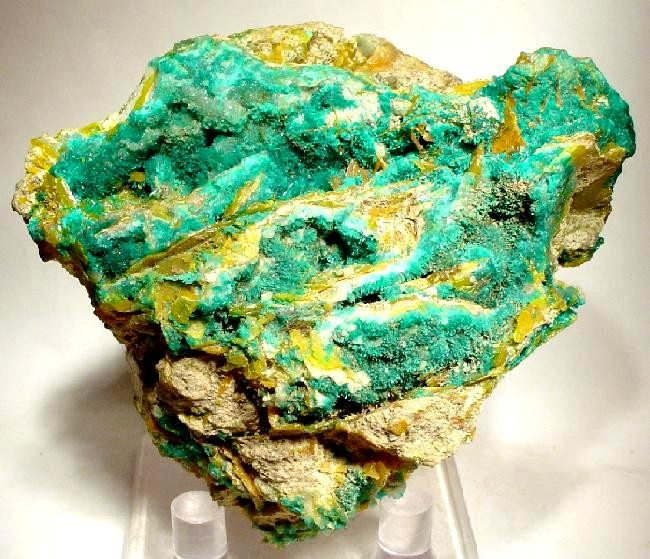 Dioptase, Wulfenite, Willemite Locality: Mammoth-Saint Anthony Mine (Mammoth-St Anthony Mine; Mammoth Mine; St. Anthony Mine), St. Anthony deposit, Tiger, Mammoth District, Pinal County, Arizona, USA (Locality at ) A striking, old-time specimen of vugs filled with tiny, emerald-green dioptase needles, some on willemite, in matrix, which includes lustrous, embedded, orange-yellow wulfenite crystals to 2.5 cm. Dioptase from the famous Mammoth Mine at Tiger is some of the most sought-after material from Arizona. The mine closed in 1953. This fine piece comes with two old labels. Ex Richard Hauck Collection. 7.4 x 6.5 x 5.5 cm